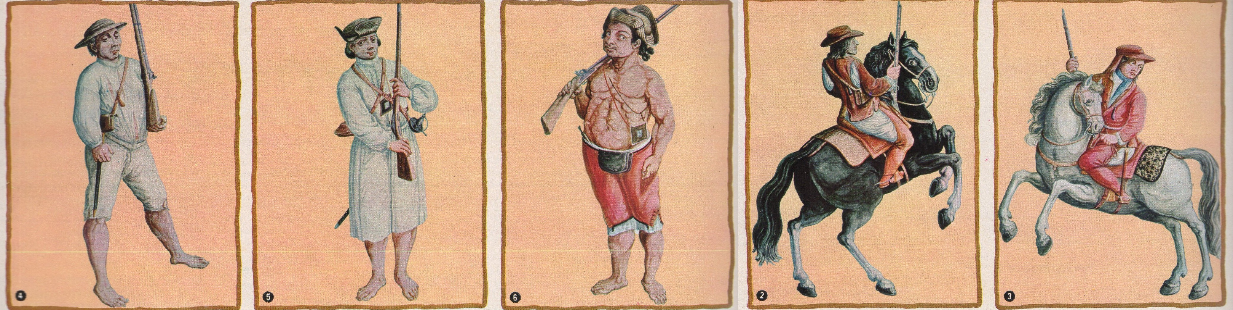 Countrymen of the Ordenanças Troops. Colony Brazil. XVIII century